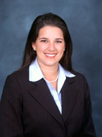 Photo of Florida State of Representatives Anitere Flores